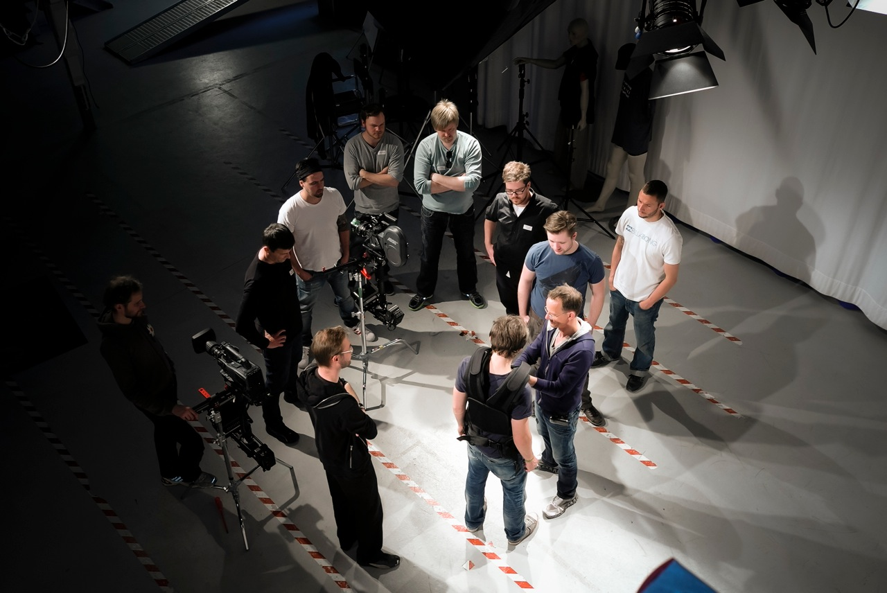 Curt O. Schaller: inventor and designer of the camera stabilizer systems artemis by ARRI (previously Sachtler / Vitec Videocom) - steadicam operator workshop 2012 at the Sachtler Academy